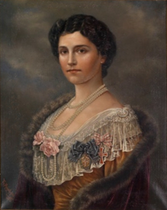 Empress Zita of Austria